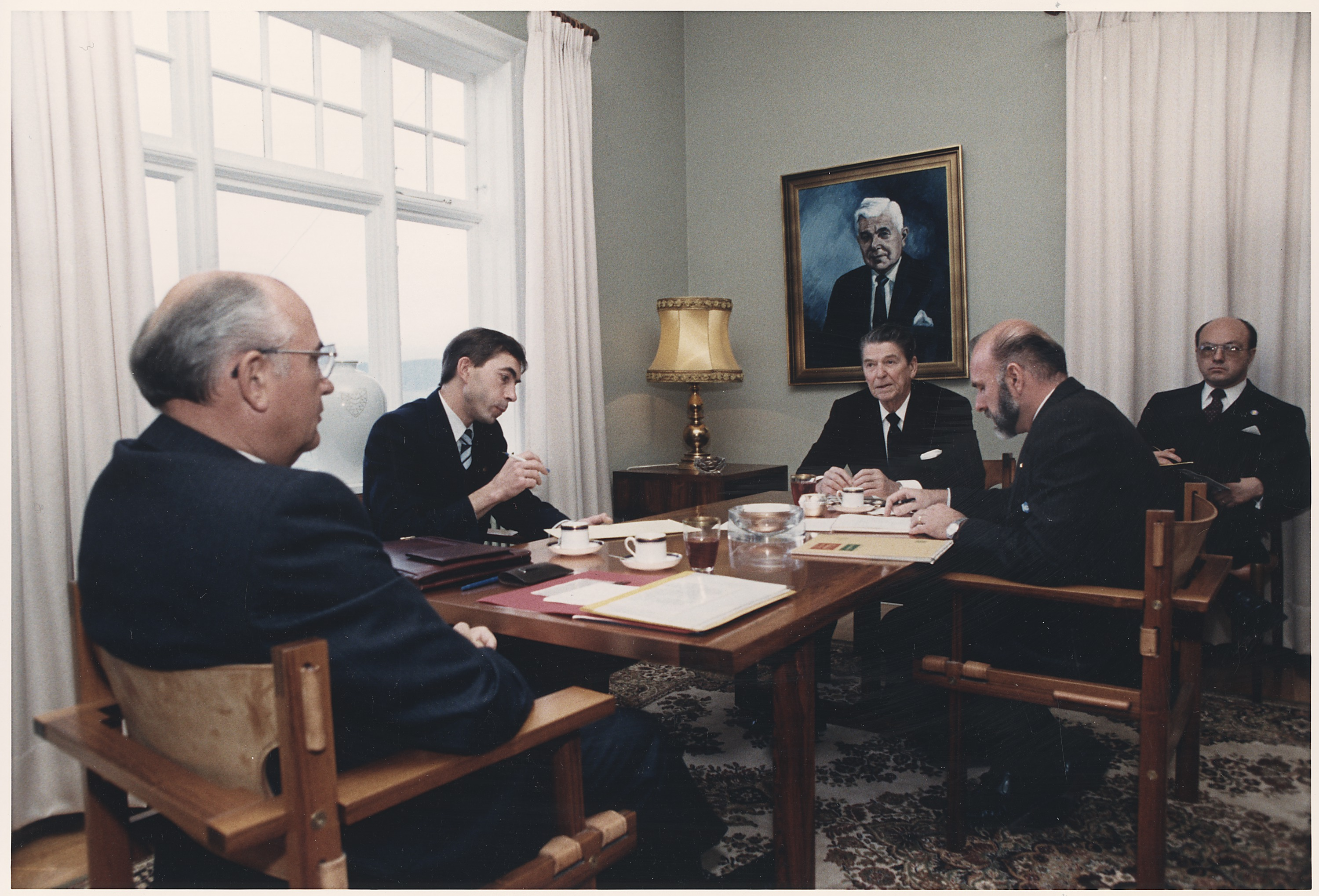 Photograph of President Reagan and General Secretary Gorbachev meeting at Hofdi House during the Reykjavik Summit. In the background, a painting of former Icelandic Prime Minister Bjarni Benediktsson by Svala Salman (is).